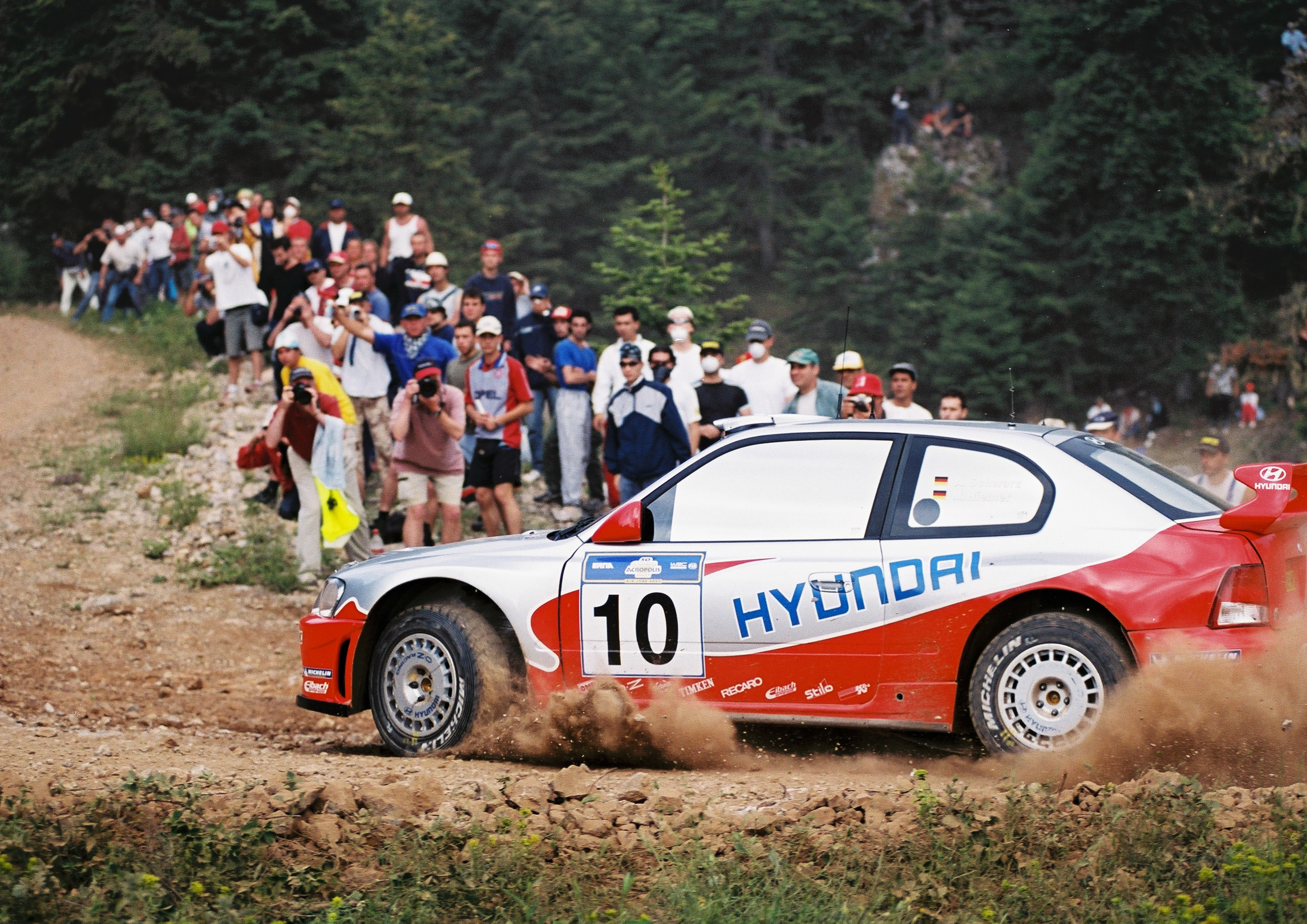 10 A. Swartz and M. Hiemer in 2003 Acropolis Rally (S.S. ?)